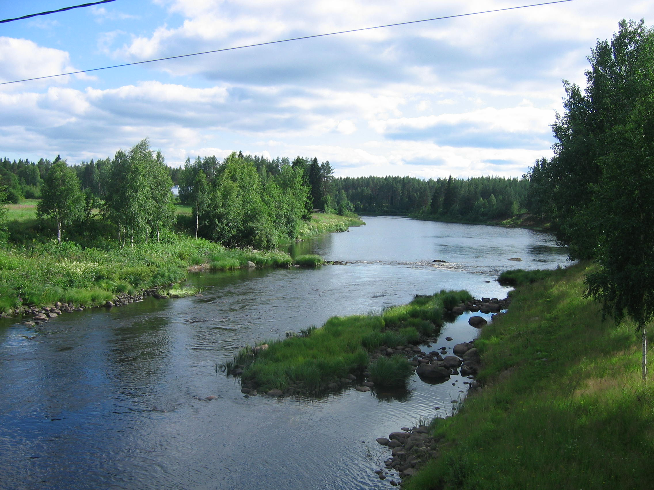 The river of Nuoritta in Nuoritta village, Ylikiiminki, Finland